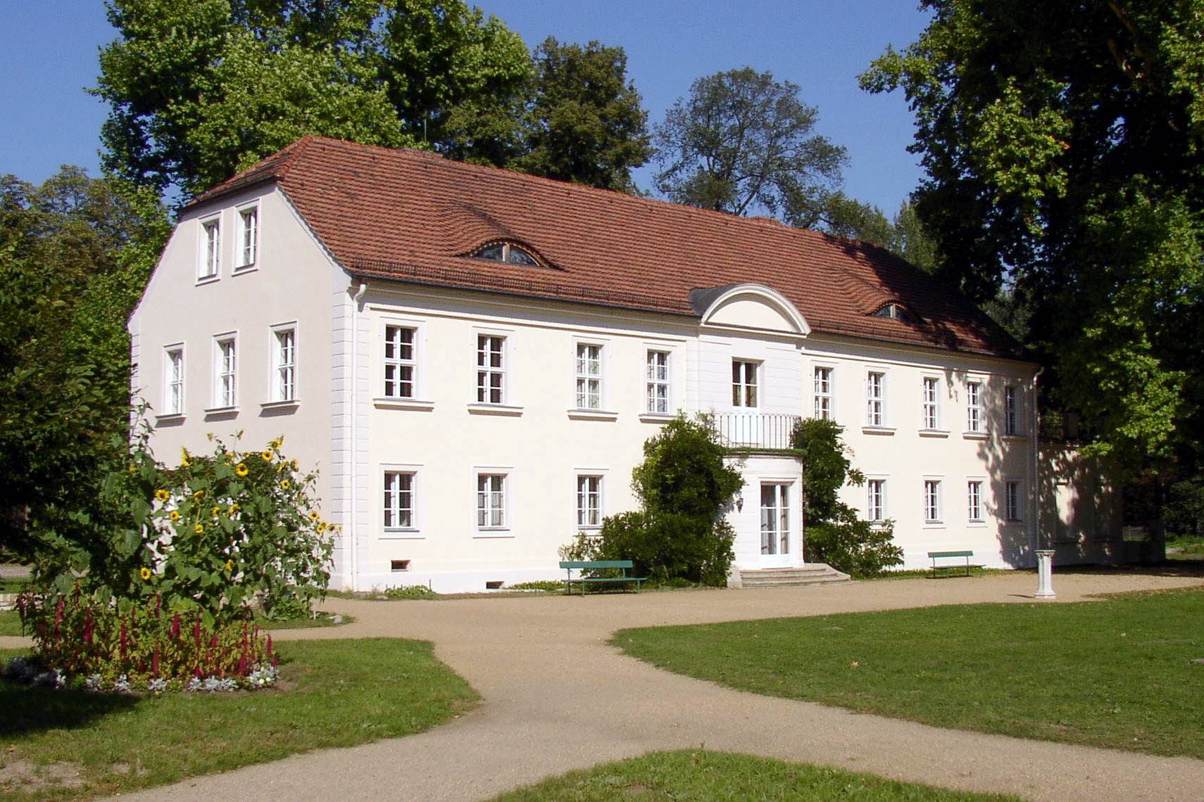 Palace in Potsdam-Sacrow in Brandenburg, Germany